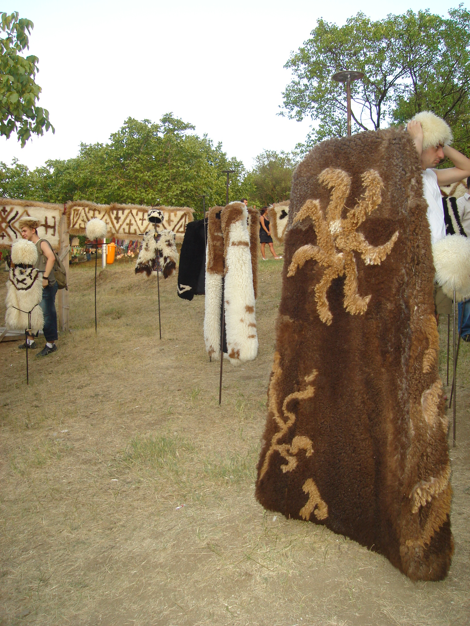 An outdoor exhibition of "nabadi" (cloak) and "papakhi" (wool hats) within the framework of the ArtGene festival in the Ethnographic Museum, Tbilisi, Georgia.